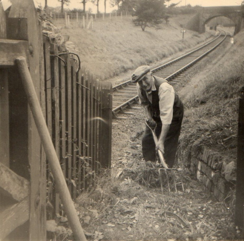 Arddleen Station showing now demolished bridge towards Pool Quay. Photo taken around 1958